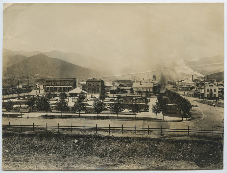 Title: Cananea, Sonora Mexico Creator: Unknown Date: ca. 1906 - 1910 Part Of: Cananea, Mexico Physical Description: 1 photographic print: gelatin silver; 15.2 x 20.3 cm. Form/Genre: Photographs; Photographic prints File: ag1983_0282_21_cananea.jpg Rights: Please cite Southern Methodist University, Central University Libraries, DeGolyer Library when using this file. A high-quality version of this file may be obtained for a fee by contacting . For more information, see: View Mexico: Photographs, Manuscripts, and Imprints at